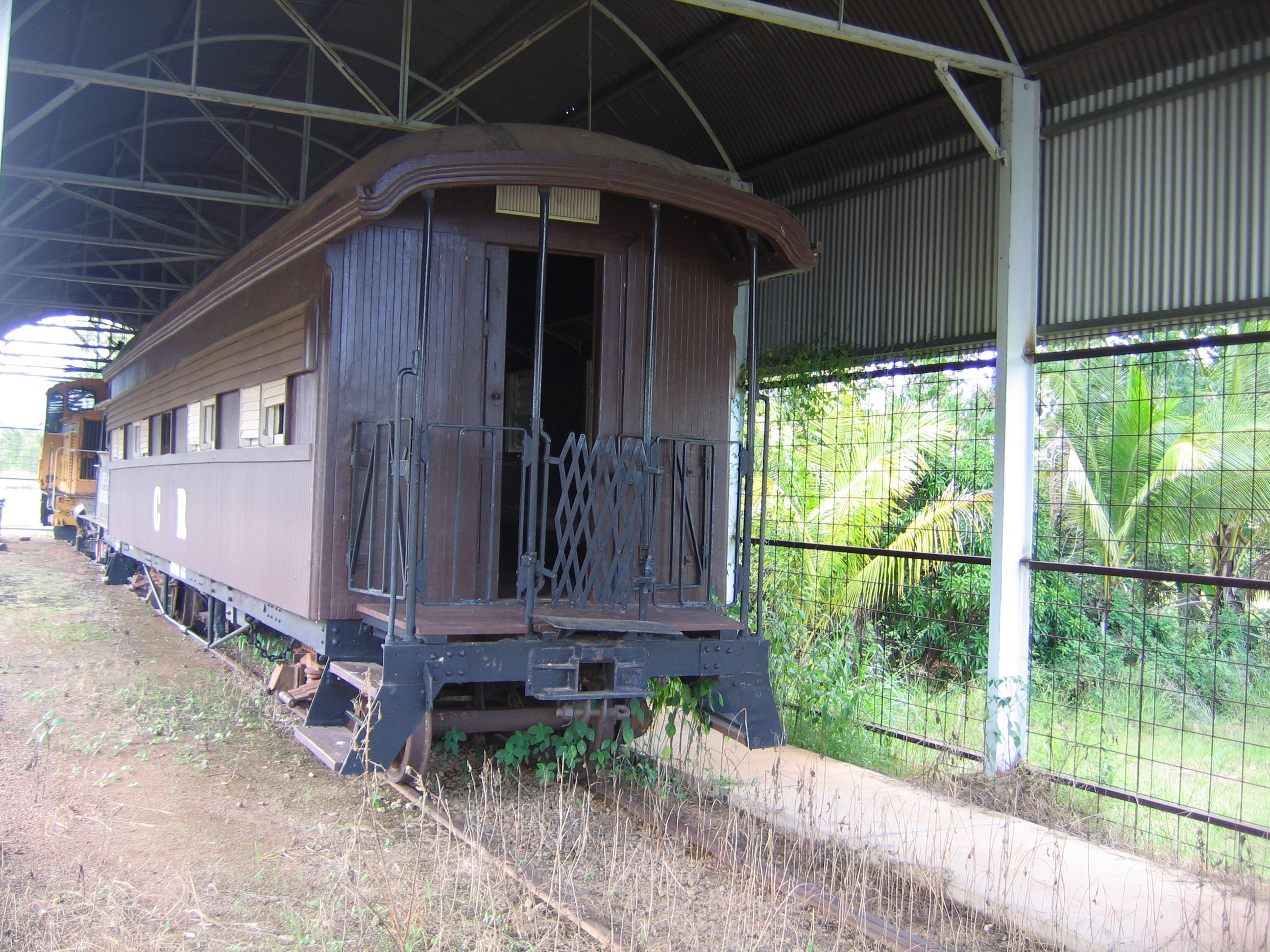 Passenger car North Australian Railway, Museum Pine Creek